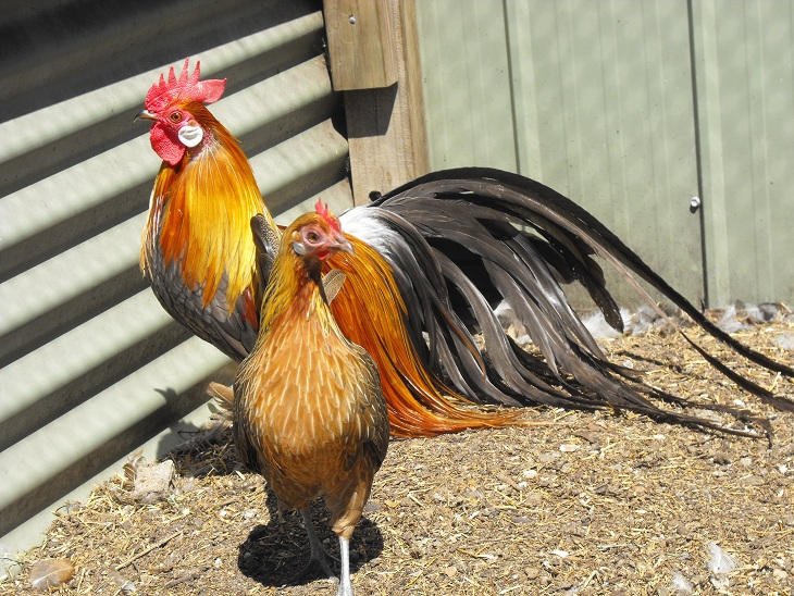 A Phoenix chicken rooster and hen.